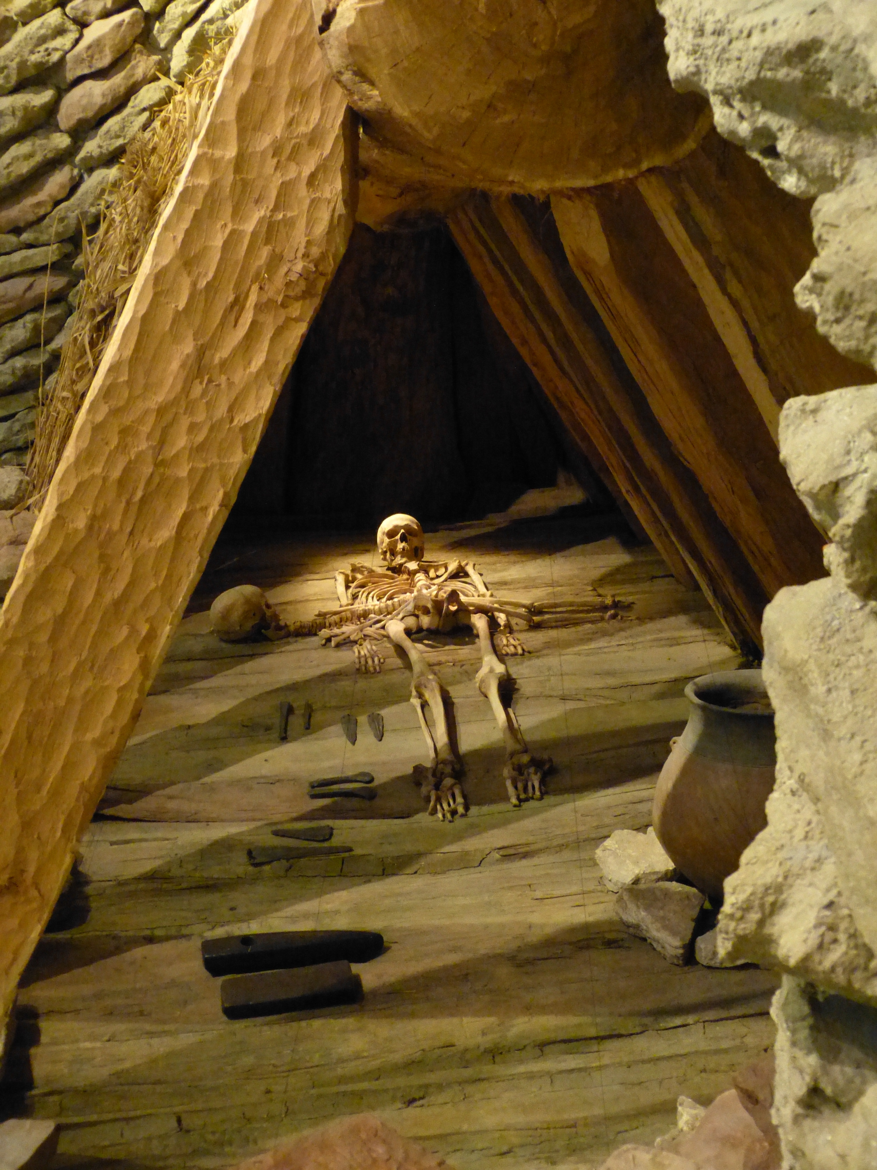 Weimar ( Thuringia ). Museum for Prehistory in Thuringia: Reconstruction of a prince's grave of Unetice culture ( 2200-1600 BC ) in Leubingen.